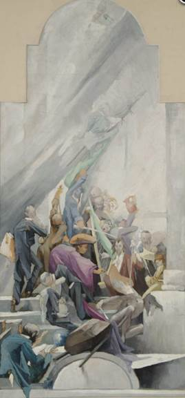 Allegorical Scene (Comedy of Life)